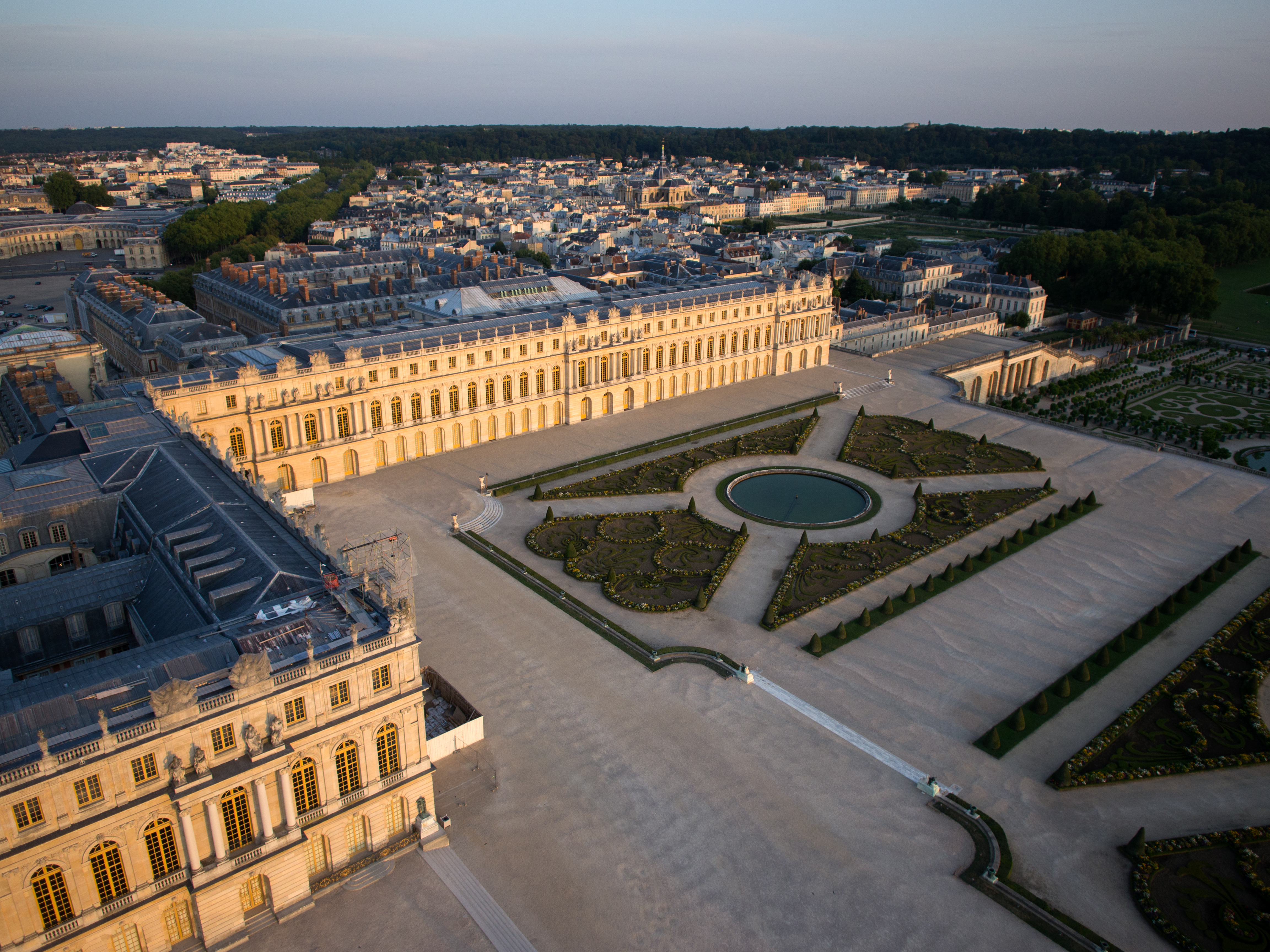 Aerial view of the Domain of Versailles, France